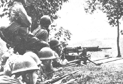 1944_Operation_Ichigo_IJA_Type_92_Heavy_machine_gun